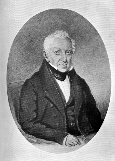 The Father of Sir Harry Smith